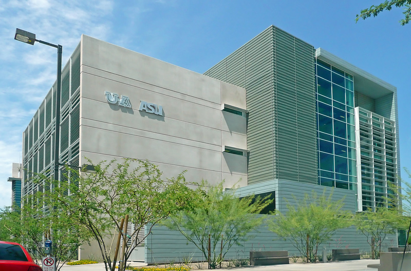 UofA and ASU Medical School